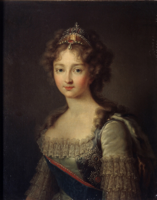 Portrait of Empress Elizabeth Alexeievna, Princess Louise of Baden (1779-1826)